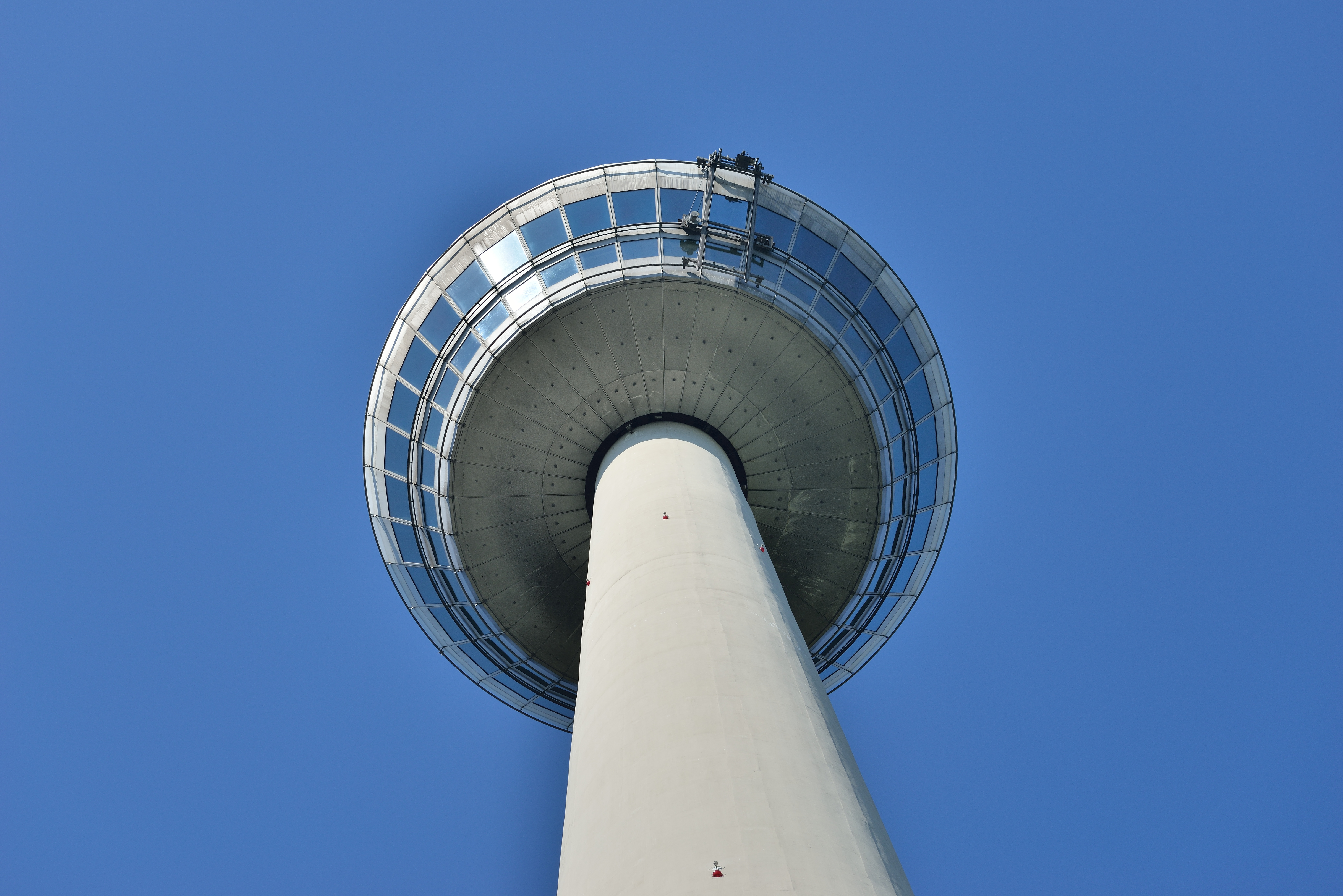 Mannheim: TV Tower